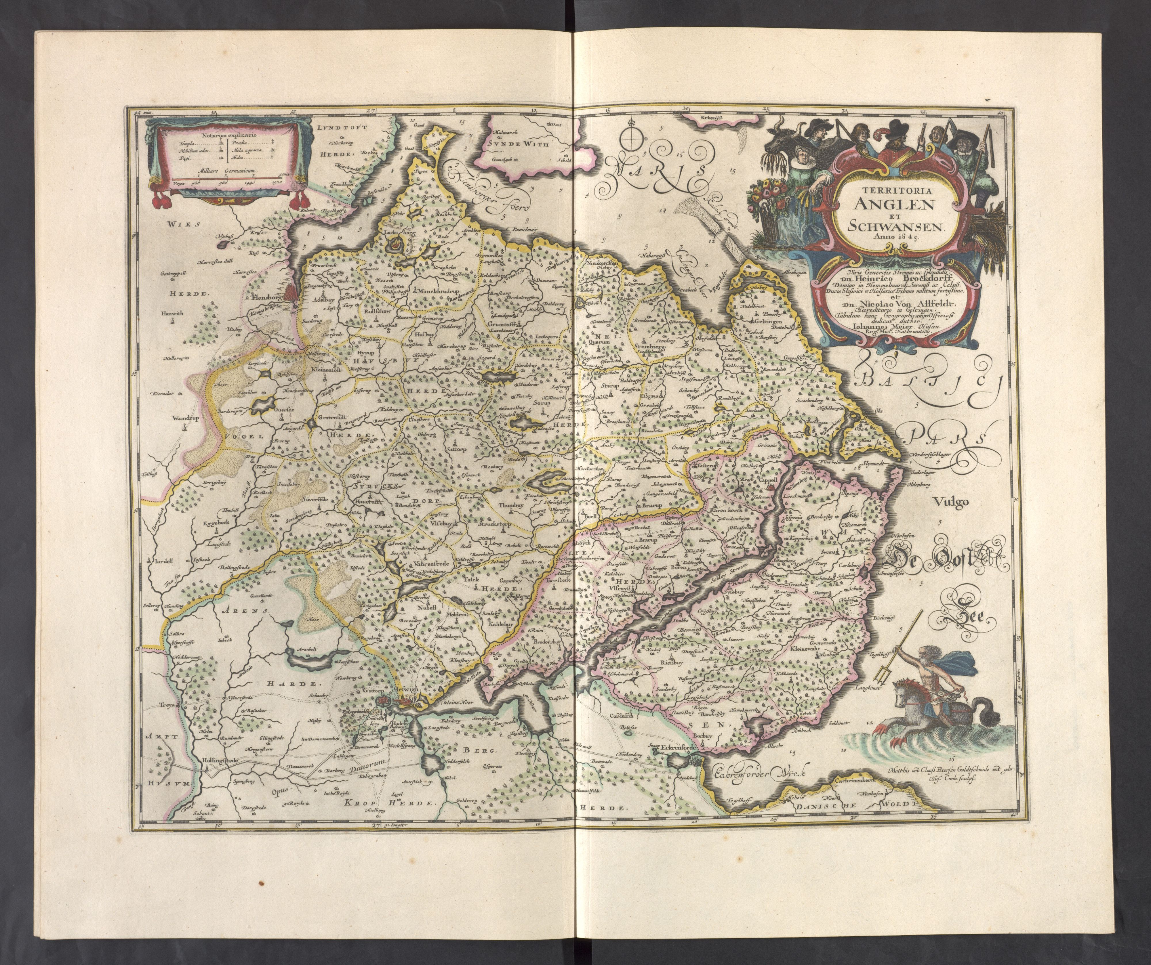 Map published in Joan Blaeu's 1667 Atlas Maior